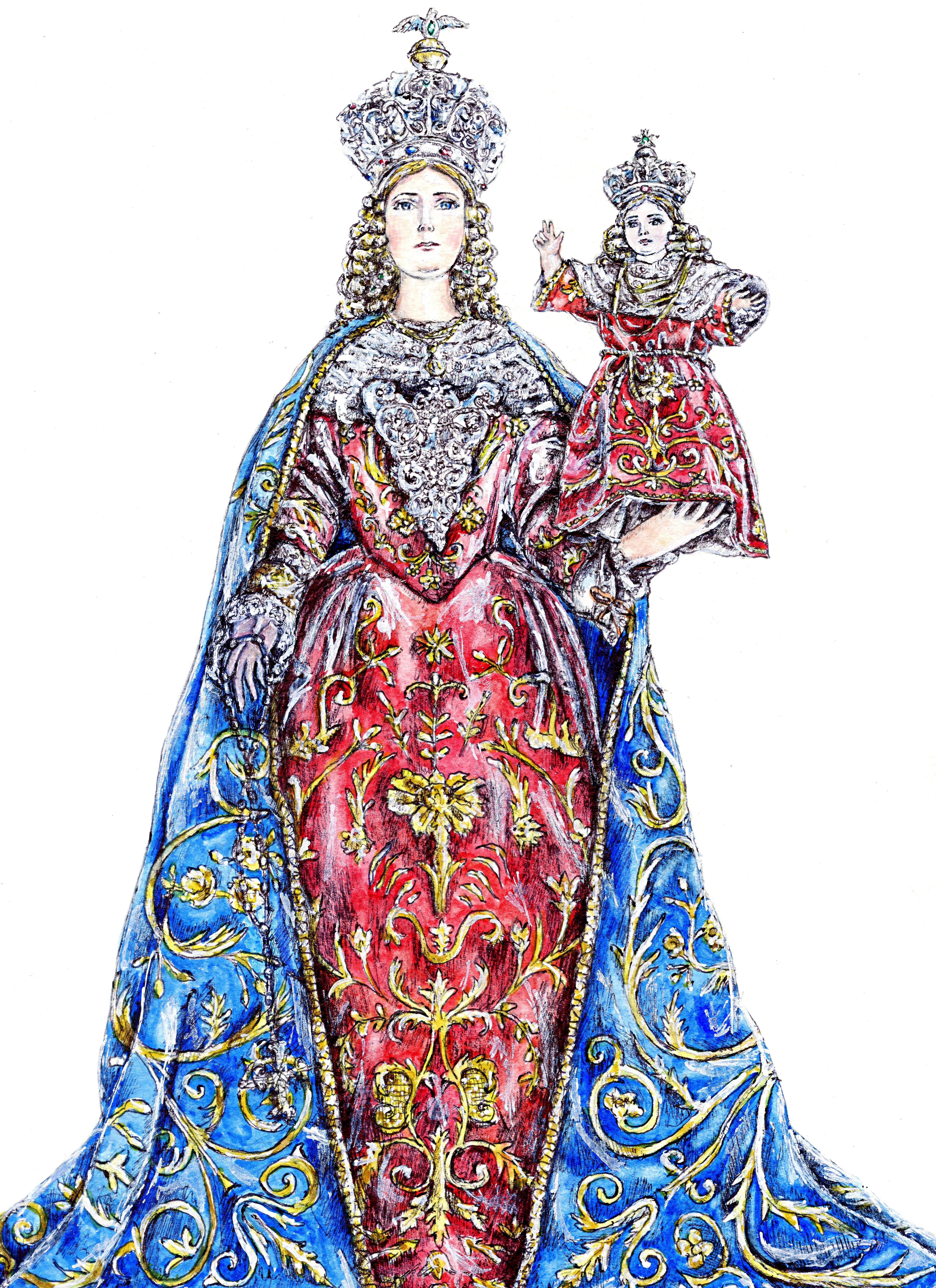 Our Lady of the Rosary